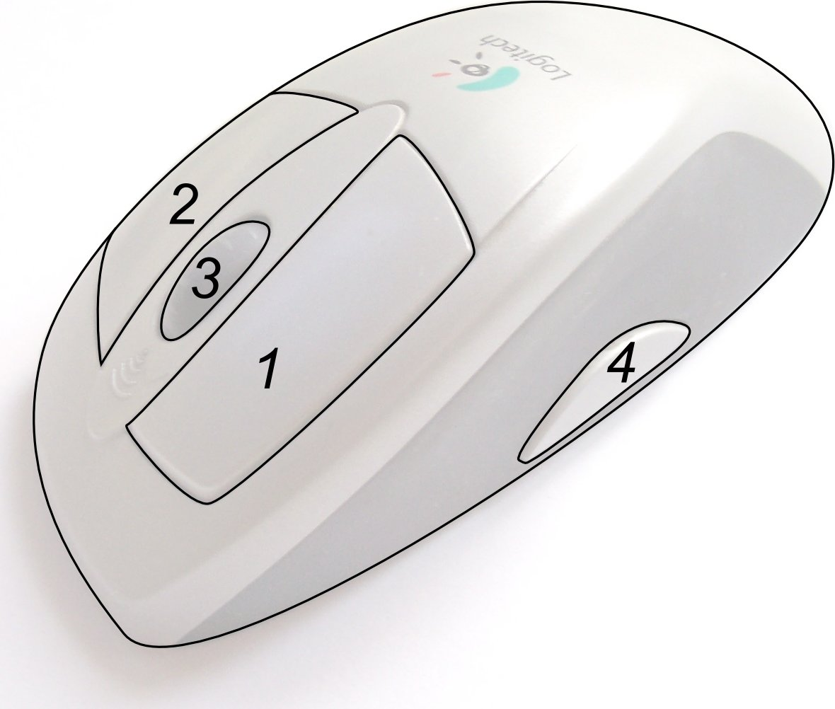 Wheel mouse with 5 buttons (numbered)